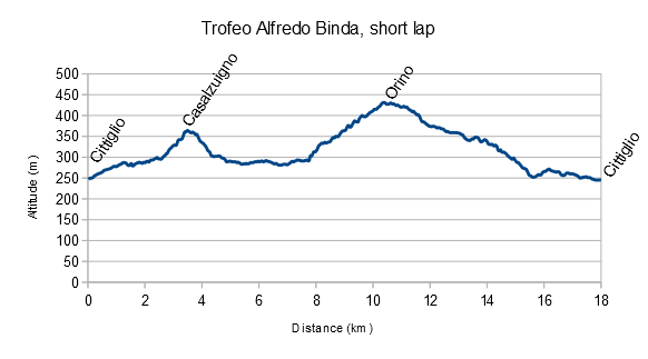 Short lap of the Trofeo Alfredo Binda 2017